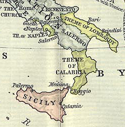 Map of the Byzantine Theme of Calabria about 1000